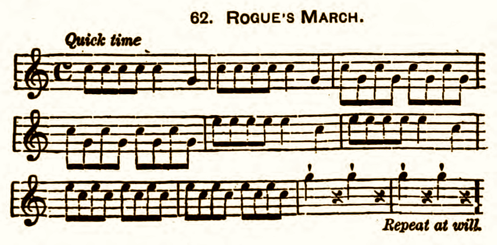 The Rogue's March, a bugle call prescribed by the regulations for training machine-gun compnies, US War College, 1918